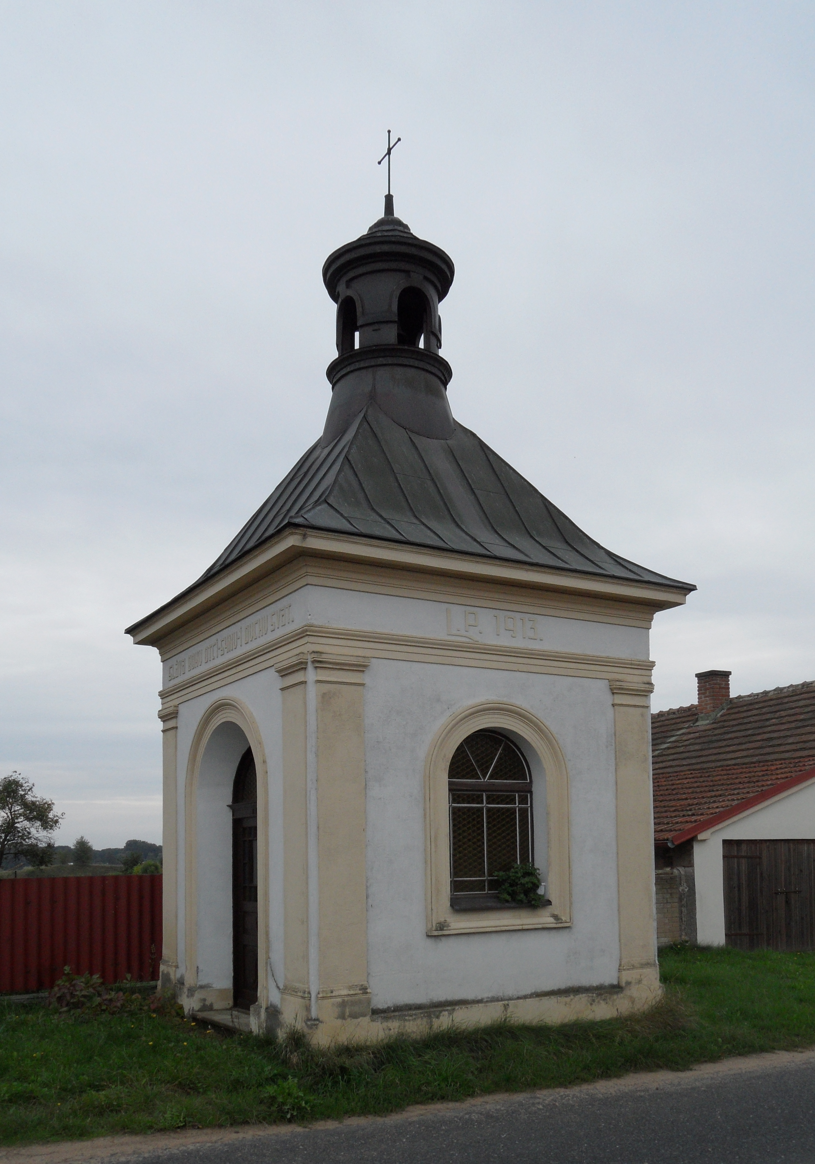 Doubrava (Kostomlátky) A. Chaple: Side View, Nymburk District, the Czech Republic.